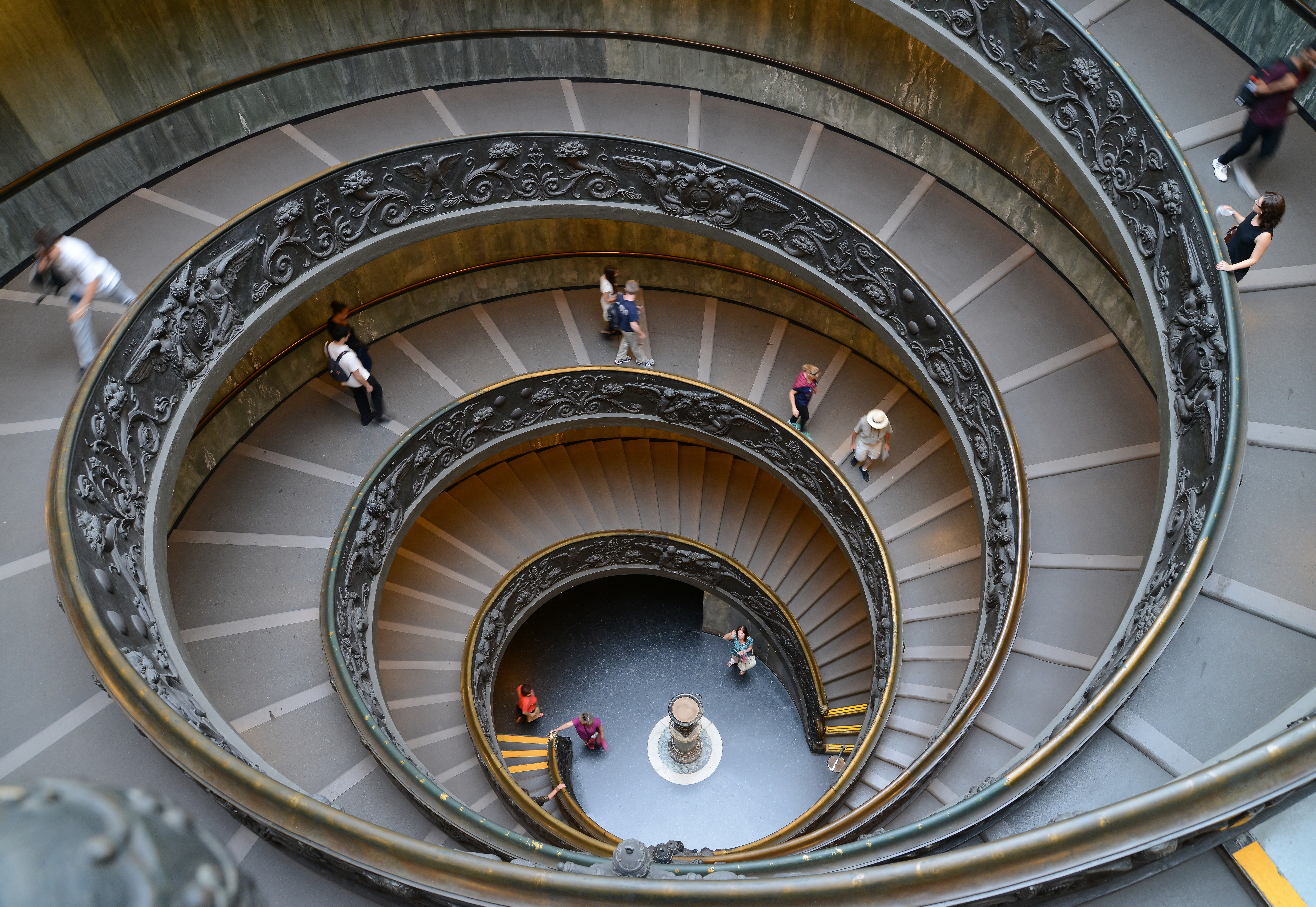 Spiral stairs in the Vatican Museums